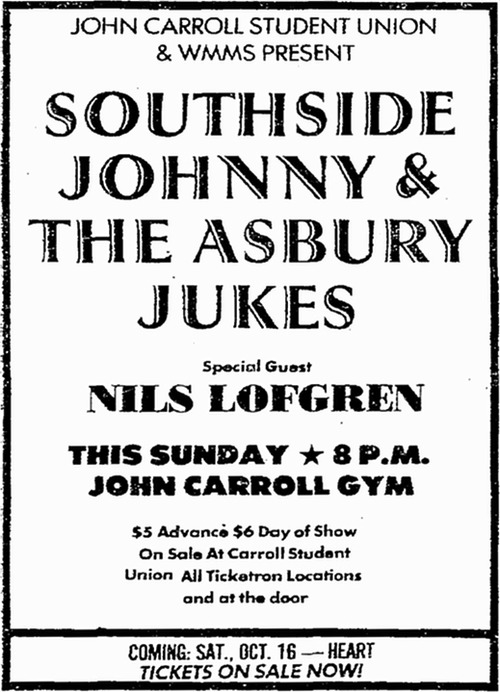 Print ad for Southside Johnny rock concert